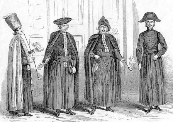 School uniforms of Reformed College of Debrecen (left to right: between 1624-1774, in 1774, in 1775, in 1803)